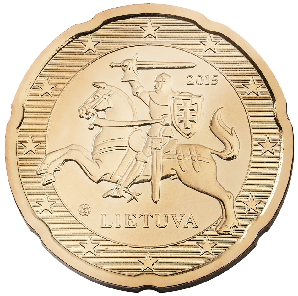 20 EuroCent Lithuania 2015